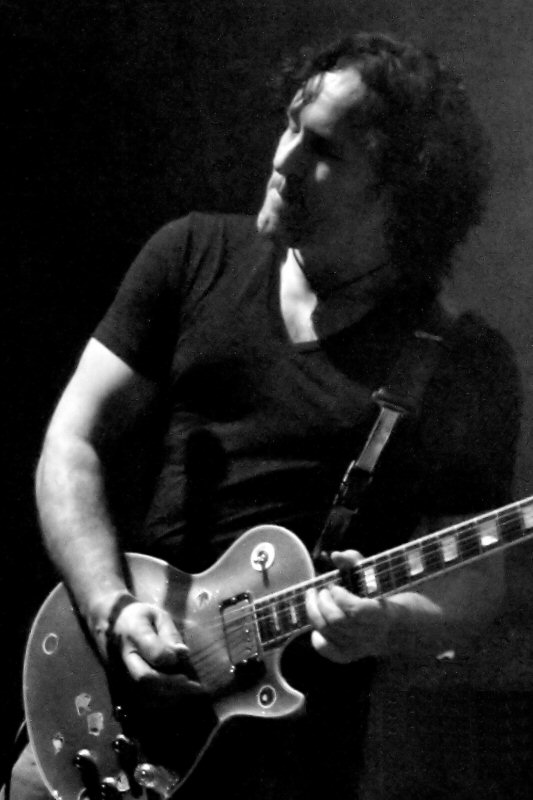 Guitarist Vivian Campbell of Thin Lizzy (and of Def Leppard fame) at Aberdeen Music Hall January 6th 2011